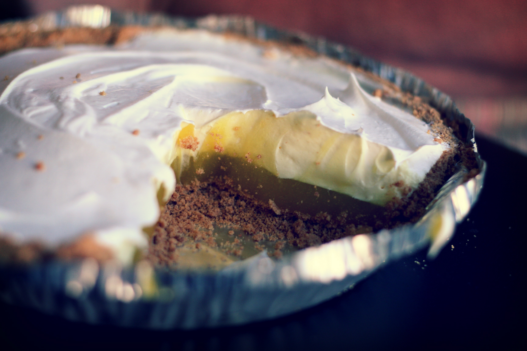 My brother & mom came to visit on Wednesday before my brother leaves on a trip to Taiwan for a month. We went to dinner an then played scrabble on the back porch & ate this tasty tasty lemon pie. This pie was super, super easy to make (5 minutes, max). Recipe: Ingredients: 2 pkg. (3.4 oz. each) JELL-O Lemon Flavor Instant Pudding 2 cups cold milk 1 Tbsp. lemon juice 1 Graham Pie Crust 8 oz. Whipped Topping, thawed, divided Directions: 1. In a large bowl, beat pudding mixes, milk and juice with whisk for 2 minutes. (Mixture will be thick.) Spread 1-1/2 cups onto bottom of crust. 2. Whisk half of the whipped topping into remaining pudding mixture; spread this over pudding layer in crust. 3.Top with remaining whipped topping. Refrigerate for 3 hours. Originally from:Kraft Foods. View On Black